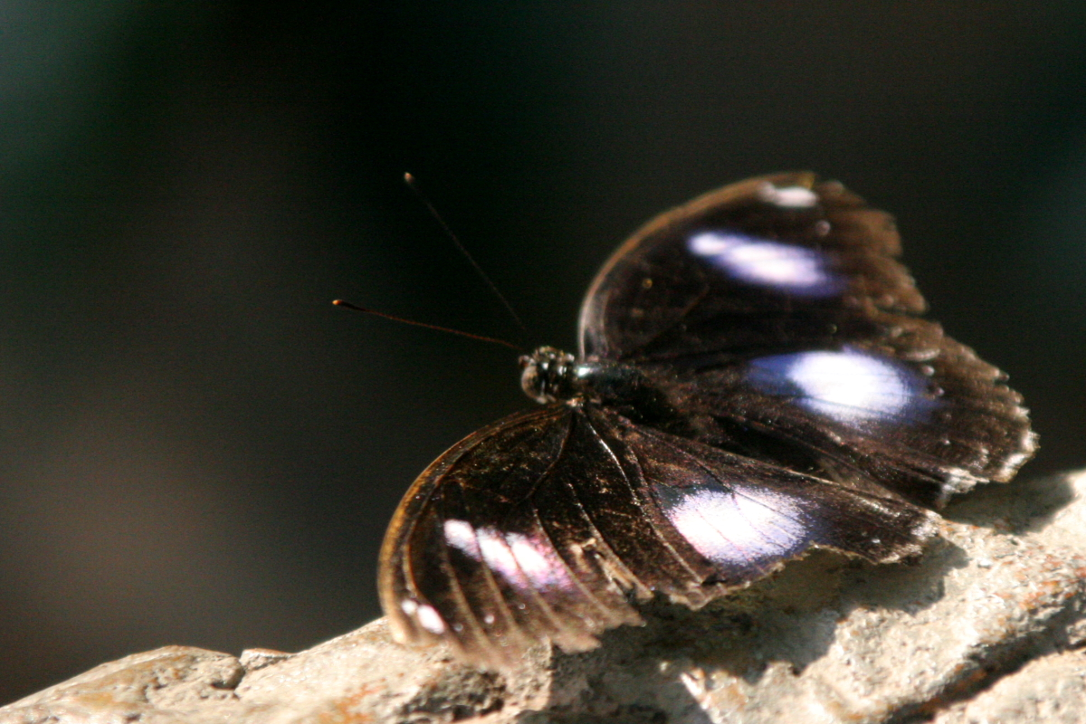 Great Egg Fly (male), Monsanto Insectarium, St. Louis Zoo